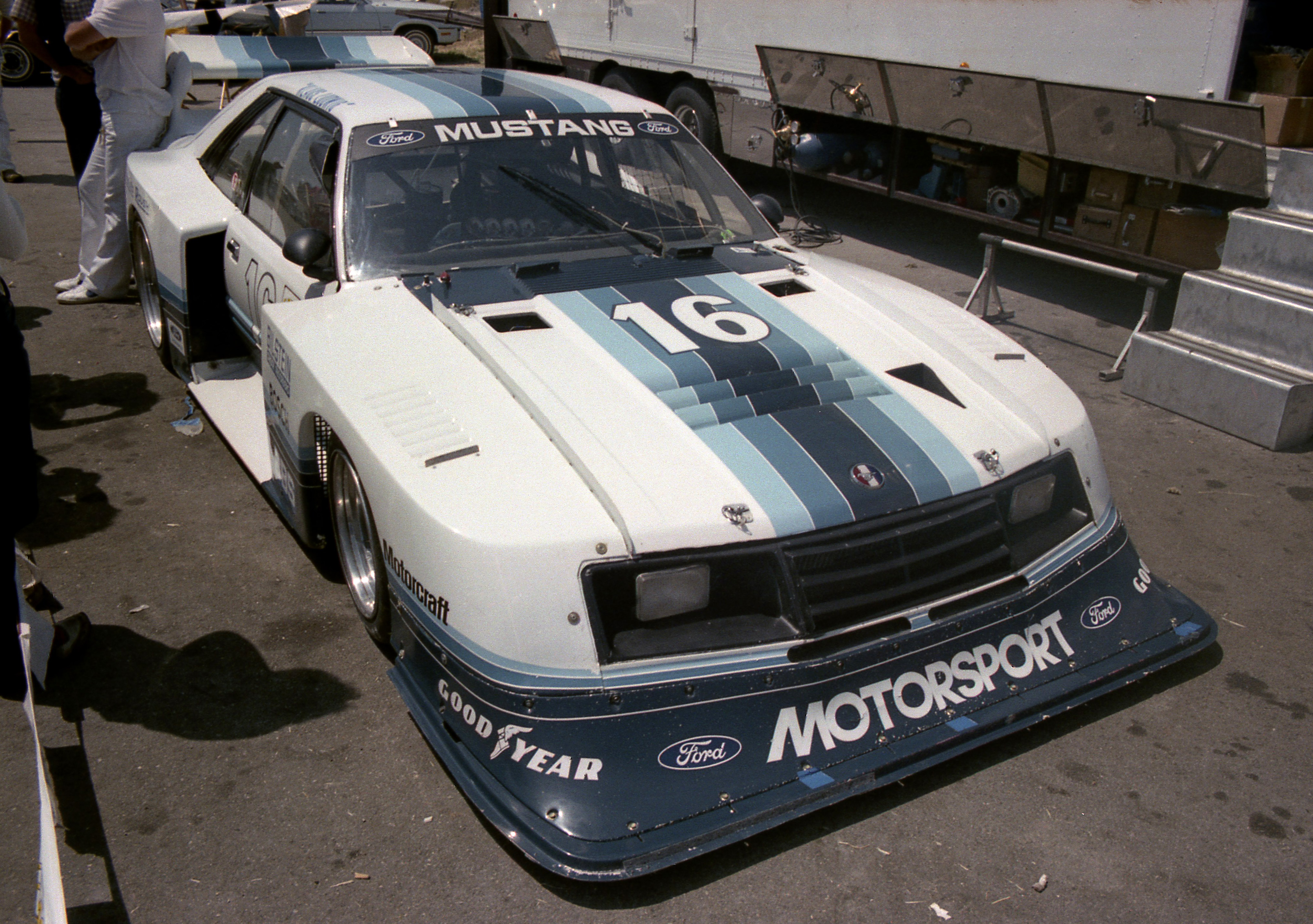 Klaus Ludwig's Zakspeed Roush Mustang in the paddock at Laguna Seca, Monterey, Calif., USA.